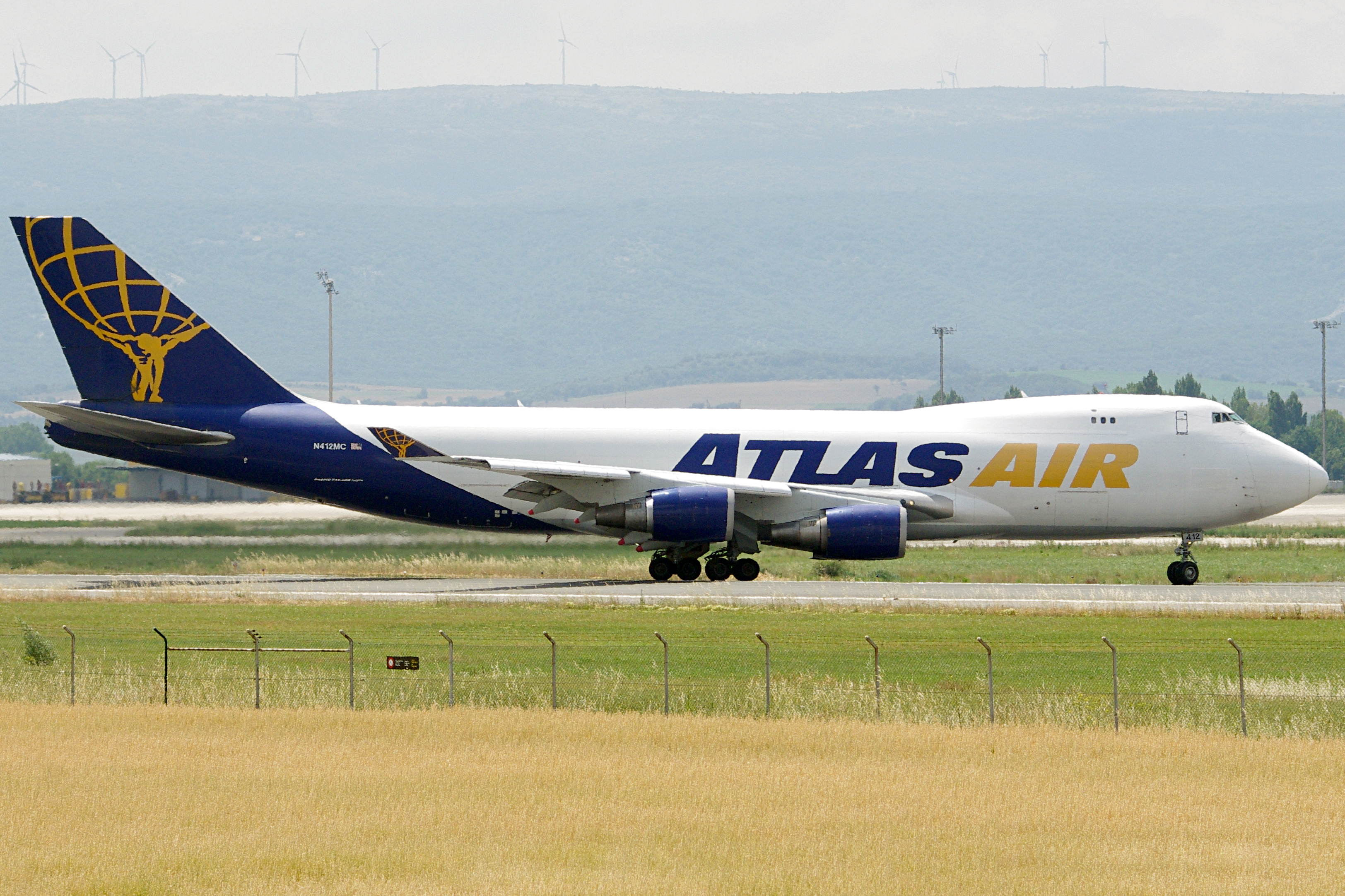 Boeing 747 of Atlas Air at Vitoria-Gasteiz Airport.